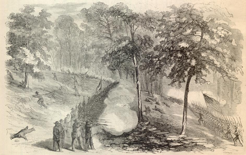 Illustration of the Battle of South Mountain for Harper's Weekly